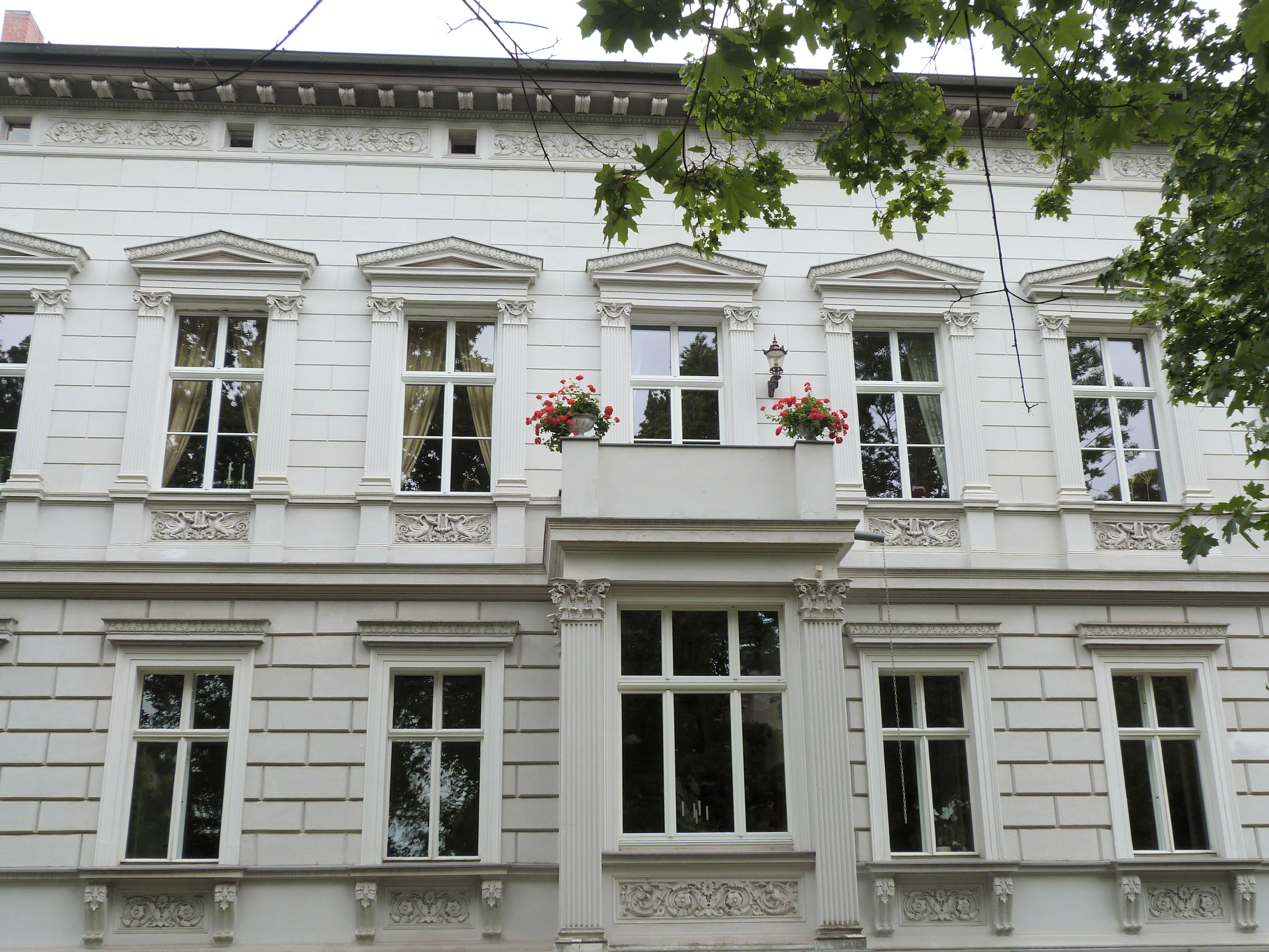 Villa Am Kirchtor No. 10, Halle (Saale)